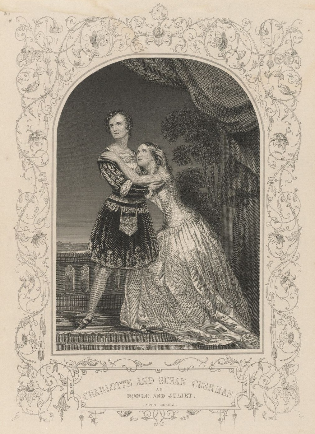 Engraving: Charlotte and Susan Cushman in Romeo and Juliet, presumably 1846. Theatrical Portrait Prints (Visual Works) of Women (TCS 45). Harvard Theatre Collection, Houghton Library, Harvard University